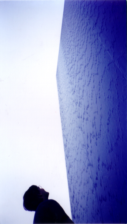 Hannover, EXPO 2000, Icelandic Pavilion